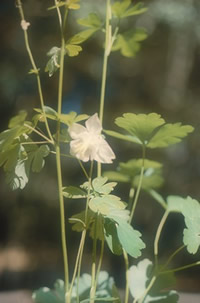 According to IUCN/SSC specialists this is one of the most endangered species of island floras in the Mediterranean area.